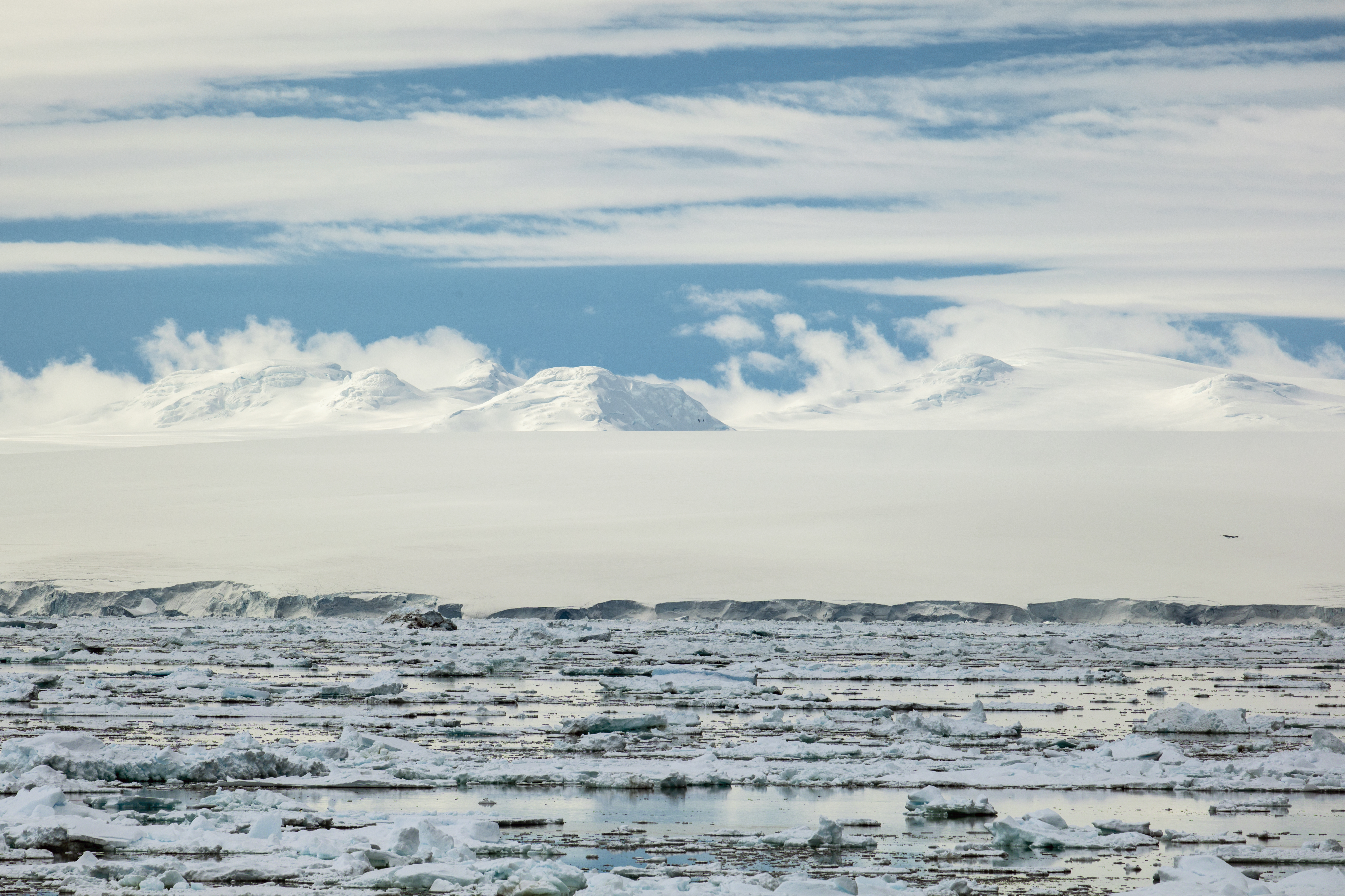 Ice shelf extending from Joinville Island into the Antarctic Sound, at the northeast end of the Antarctic Peninsula. To put distances in perspective: based on Google Earth imagery dated exactly four weeks prior to taking this photograph, the distance from the edge of the ice-shelf to the first visible mountain peak is approximately six miles. Note: The image was taken six miles from the edge of the ice shelf. Based on camera sensor size, lens magnification, and distance from the object, the height of the ice shelf edge (above water) was calculate in three places (see notations) to range from 50.8 feet to 89.6 feet.